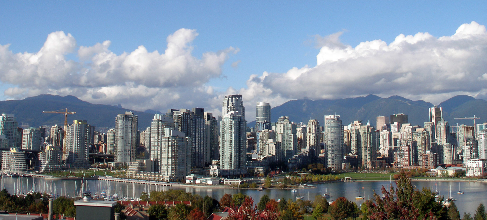 View on Vancouver on October 1, 2005